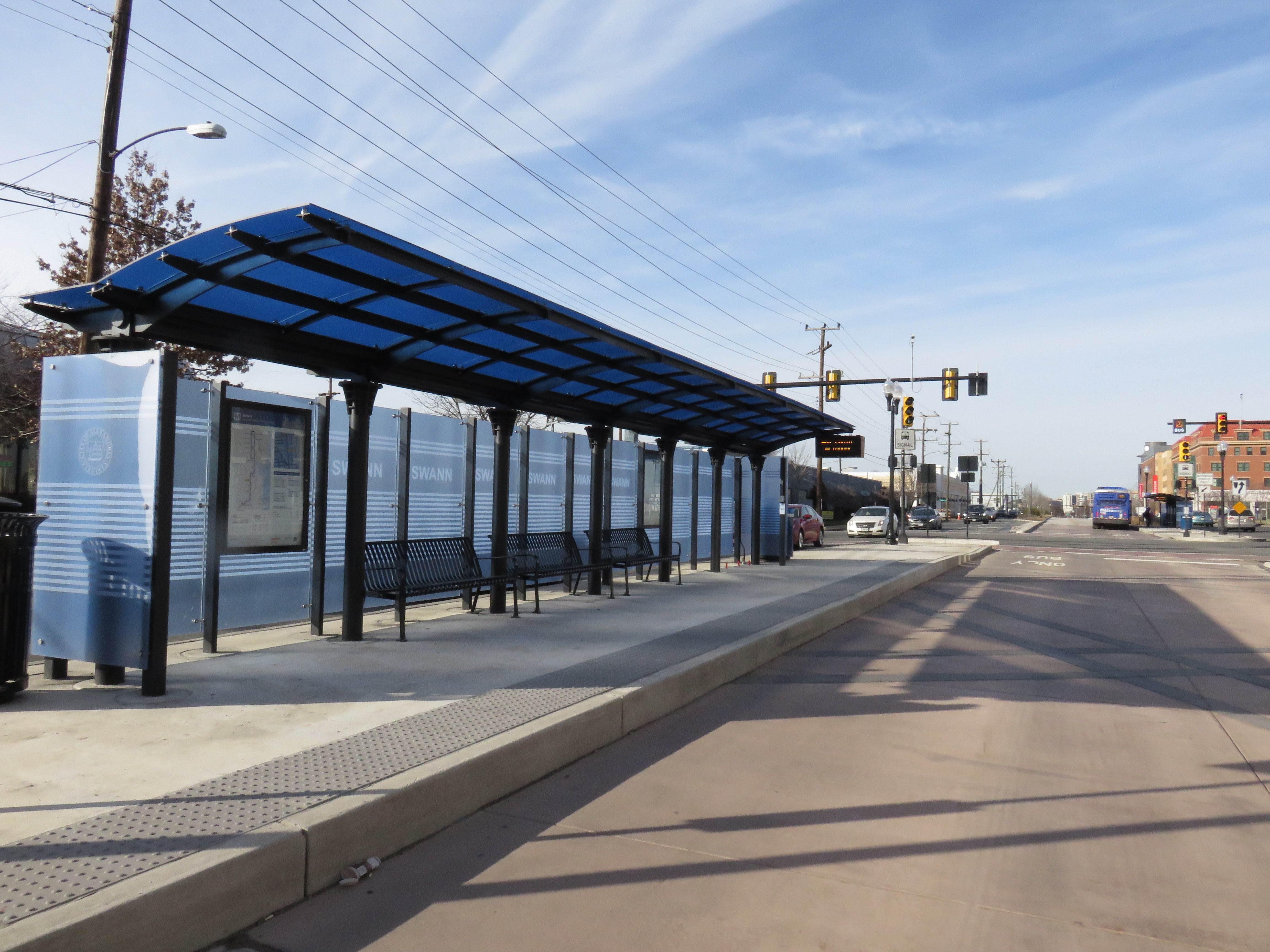 Swann Metroway station in Potomac Yard, Alexandria, Virginia in February 2016